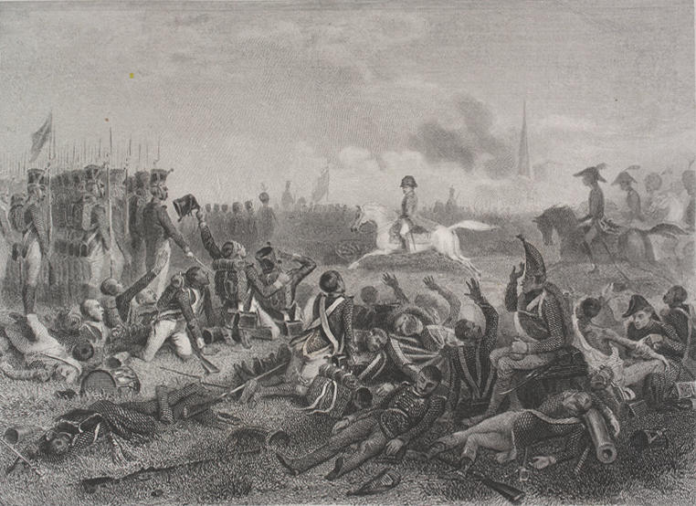 Battle of Lutzen (1813). Napoleon in front of his troops.